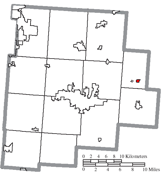 Map of the municipal and township boundaries of Fairfield County, Ohio, United States, as of the 2000 census, with the location of the village of Rushville highlighted. Township borders are shown only in unincorporated areas in order to differentiate incorporated and unincorporated areas more clearly.